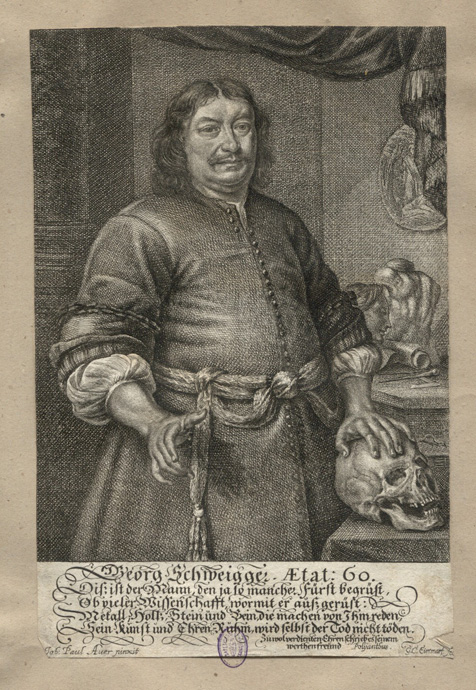 Portrait of Georg Schweigger (1613-1690)